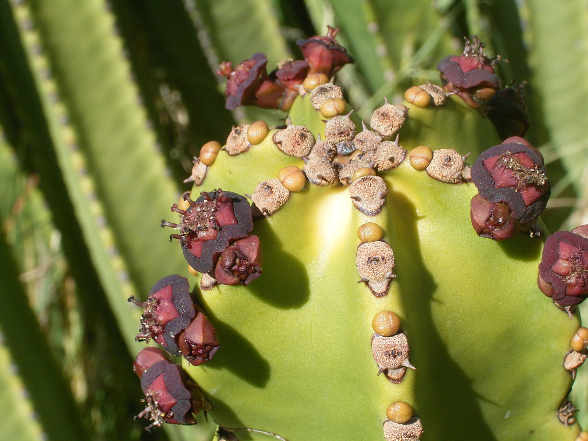 Euphorbia canariensis growing in Puntagorda, La Palma, Canary Islands